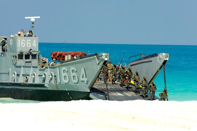 091012-A-4887F-080.JPG ALEXANDRIA, Egypt -- Pakistani Marines and U.S. Marines from Battalion Landing Team 3rd Battalion, 2nd Marine Regiment, 22nd Marine Expeditionary Unit, come ashore off a landing craft utility during a training exercise in support of Operation Bright Star 2009, Oct. 12. The U.S. is part of an 11-country coalition participating in the biannual event spearheaded by Egypt and the U.S. Central Command and Third Army/US Army Central. (Official Army photo by Spc. Lindsey M. Frazier)